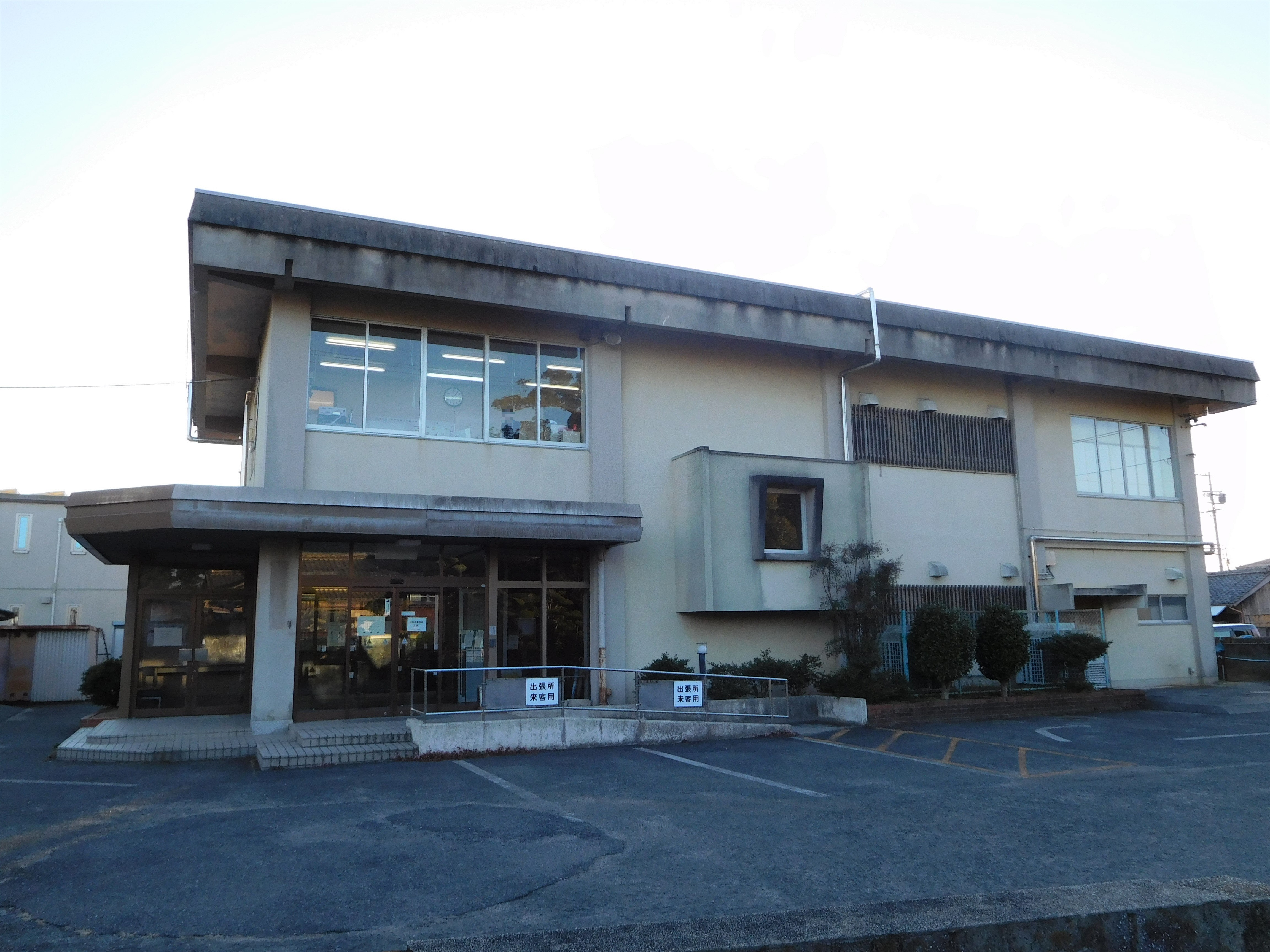 This is the Shiratsuka Community Center & Tsu City Hall Shiratsuka Office, which is located in Shiratsuka-cho, Tsu, Mie, Japan.